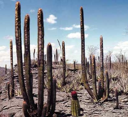 SW Bahia Brasil